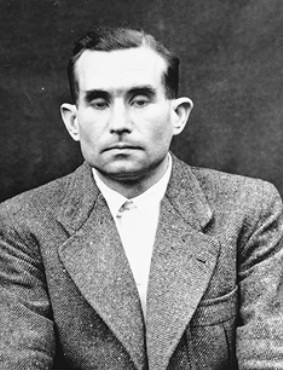 Portrait of Hermann Becker-Freising as a defendant in the Medical Case Trial at Nuremberg.